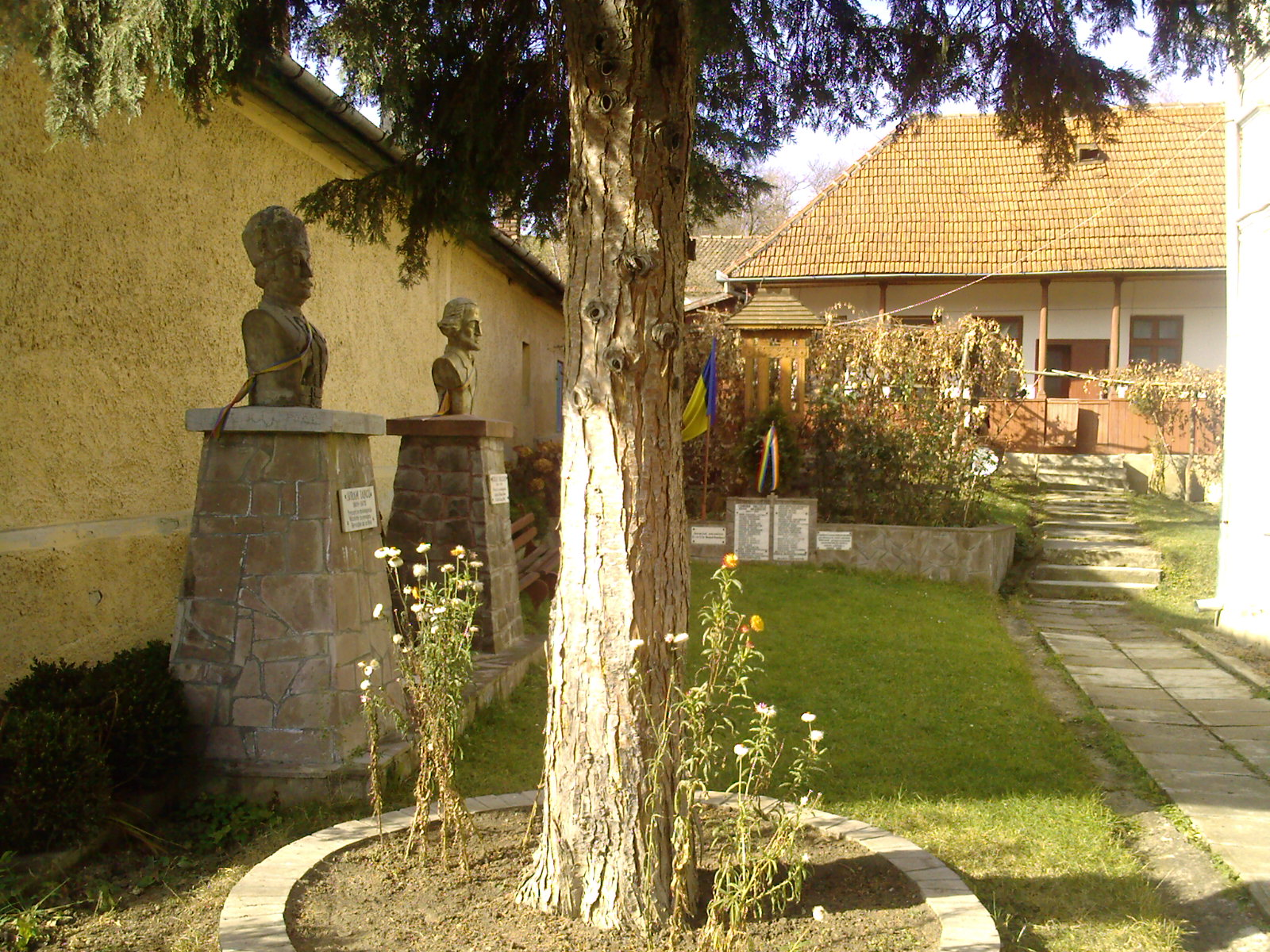 Valcele, Covasna County, Romania